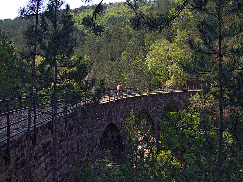 Near the town Završje, Parenzana railway overcame a few valleys with nice bridges.